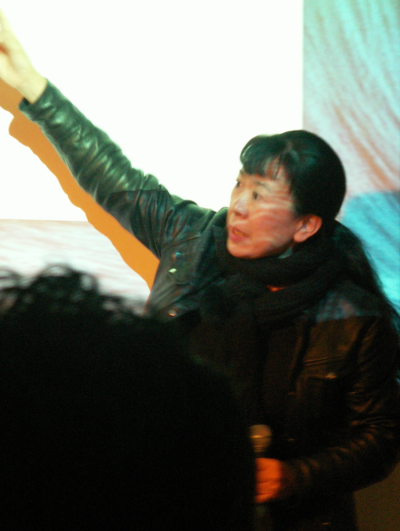 Sakiko Yamaoka during a presentation in Göteborg, October 2014.